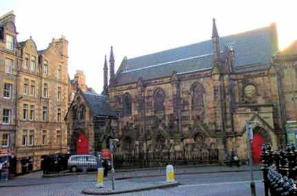 St. Columba's Free Church, Victoria Street, Edinburgh.